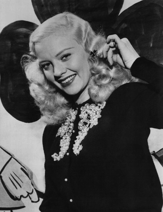 Photo of Mary Hartline from the children's television program Super Circus.